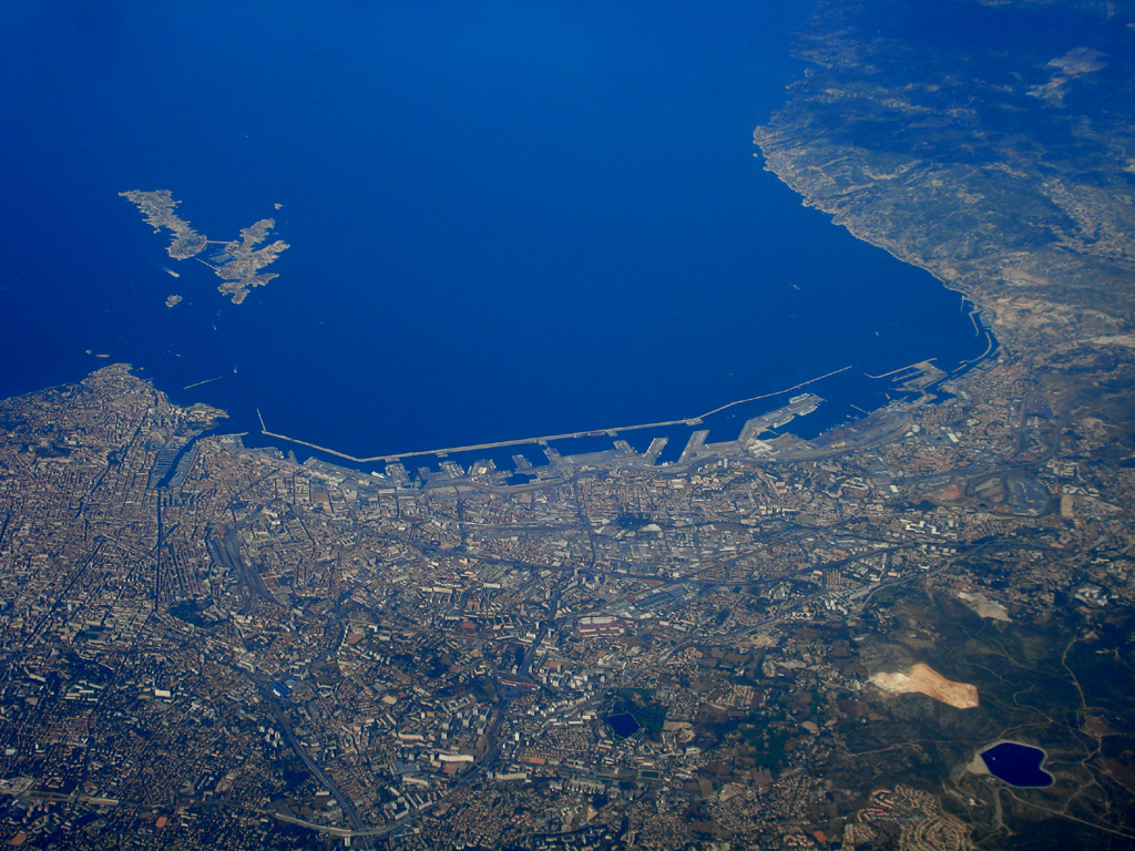 Marseilles (France)